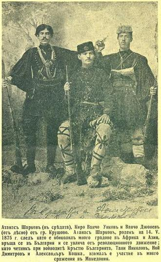 Three IMARO members Atanas Sharkov, Kiro Unkov and Vancho Dzhonev from Krushevo